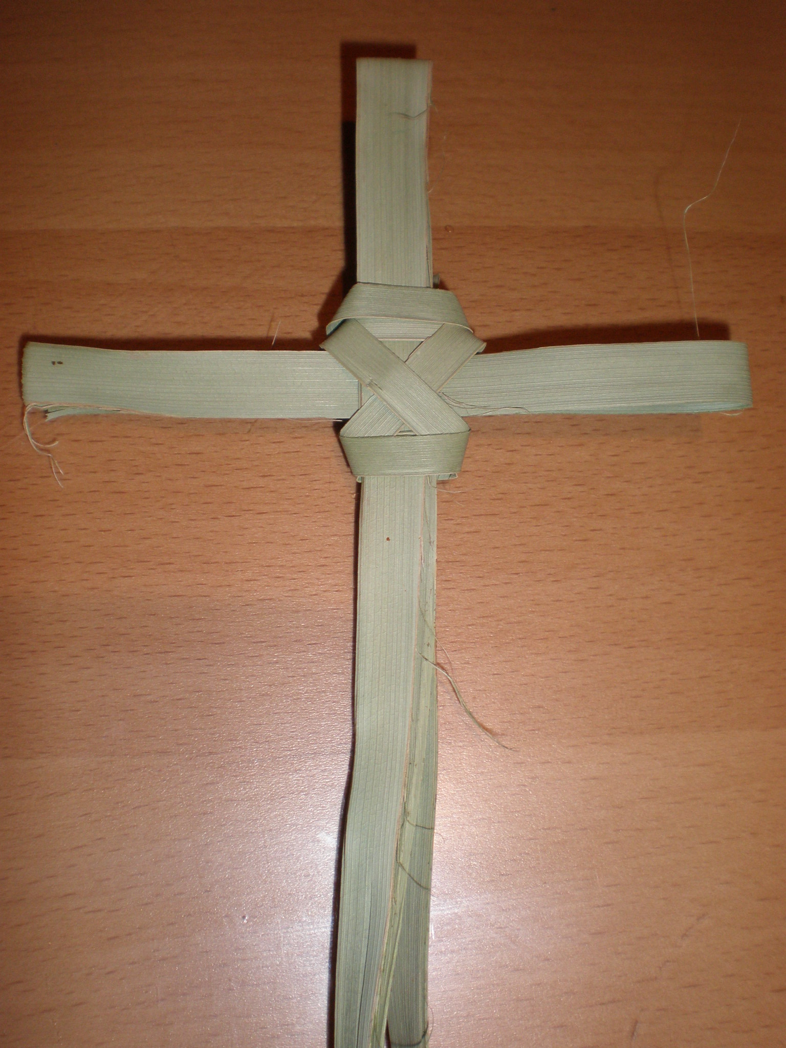 A cross woven out of palm leaves distributed on Palm Sunday, 2008